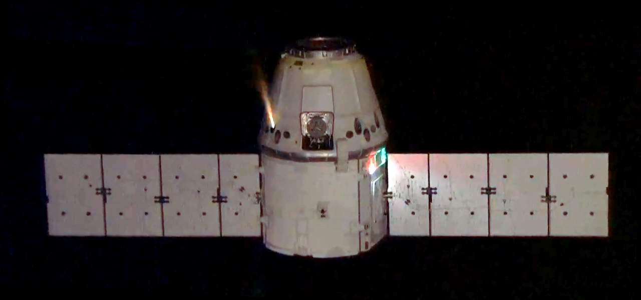 Screenshot from HD video of the COTS 2 mission as Dragon approached the ISS. A Draco thruster is seen firing.